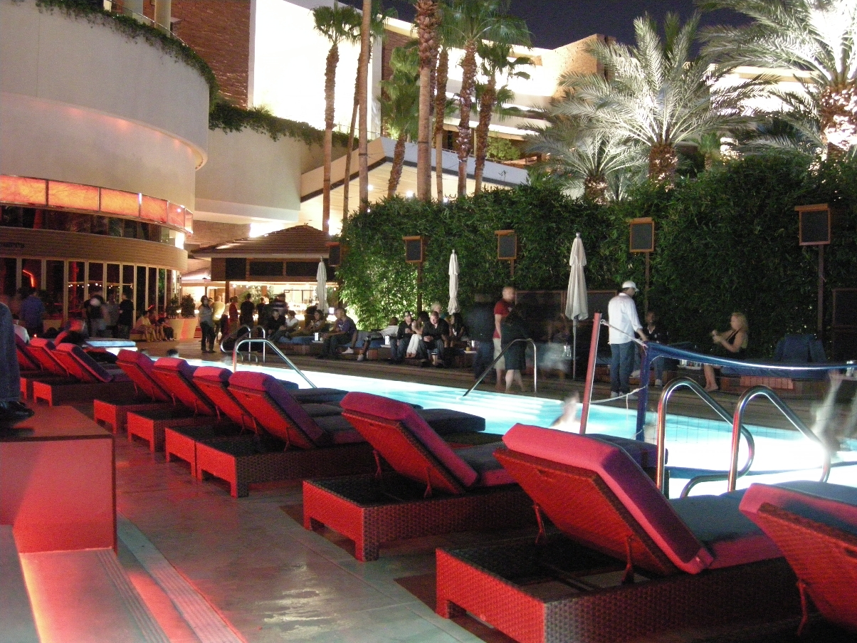 Pool Party at the Red Rock Hotel, Las Vegas